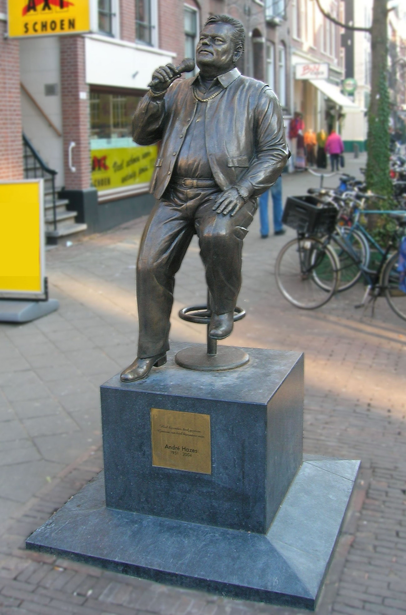 Statue of Andre Hazes by an unknown sculptor (China?) in de Pijp, Amsterdam, the Netherlands. —SanderK 15:34, 3 February 2006 (UTC)